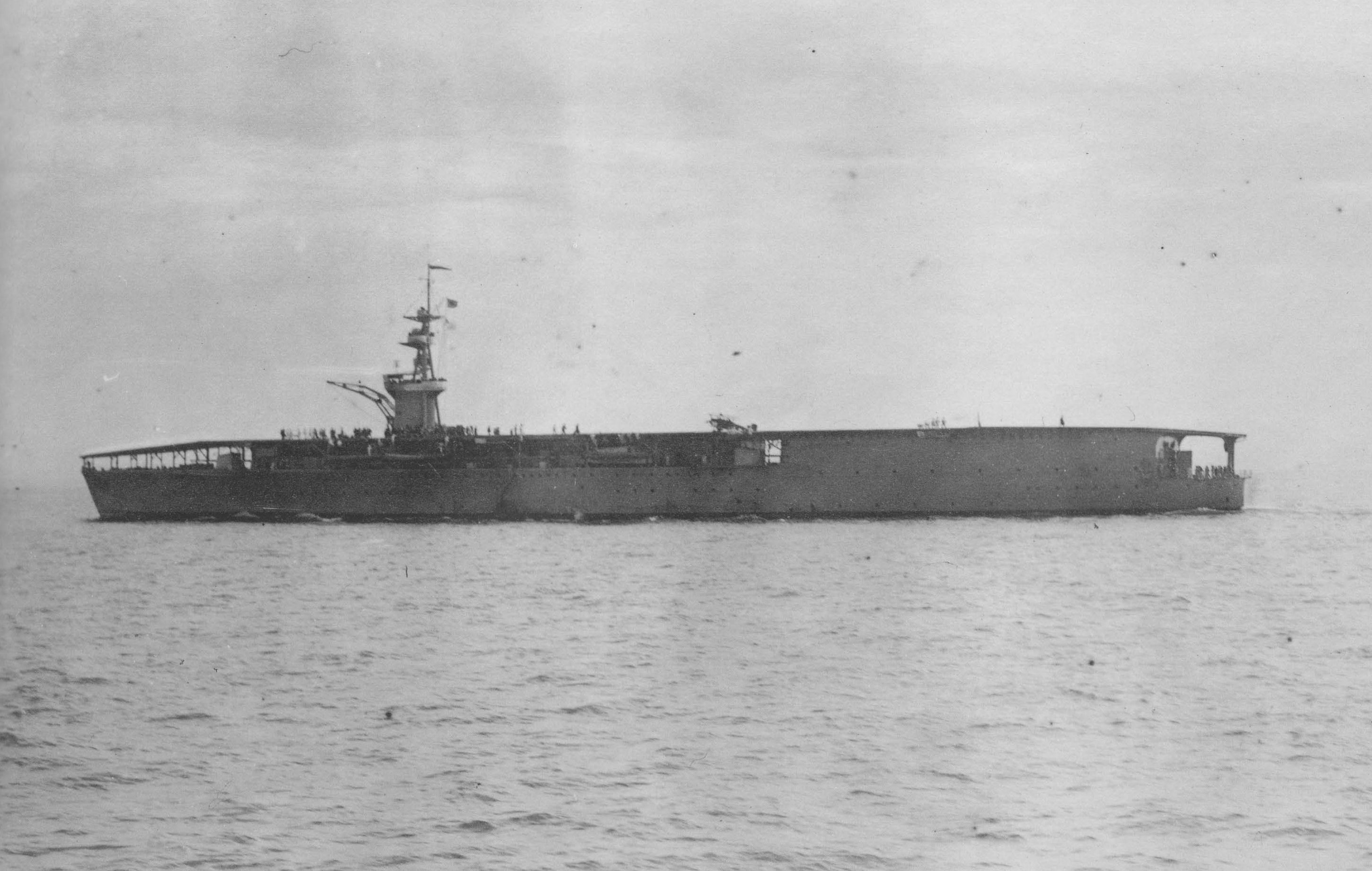 Imperial Japanese Navy aircraft carrier Hōshō outside Yokosuka. On deck is a Mitsubishi 1MF Type 10 fighter aircraft undergoing landing trials.